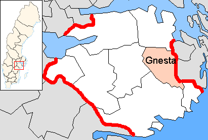 Gnesta Municipality in Södermanland County Designd by me, based on Image:Södermanland County.png